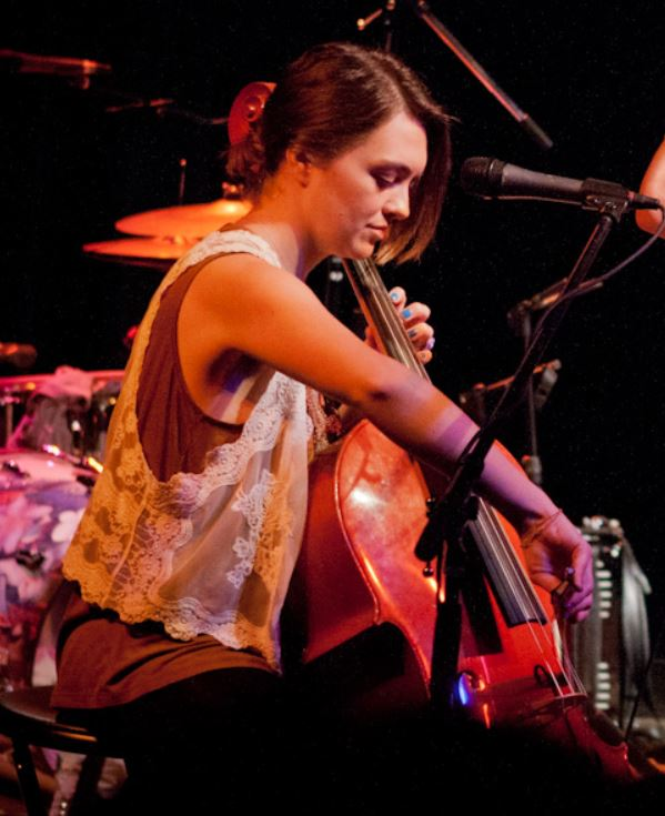 Neyla Pekarek performing with The Lumineers at Fairfield Theatre Company StageOne in Fairfield, Connecticut